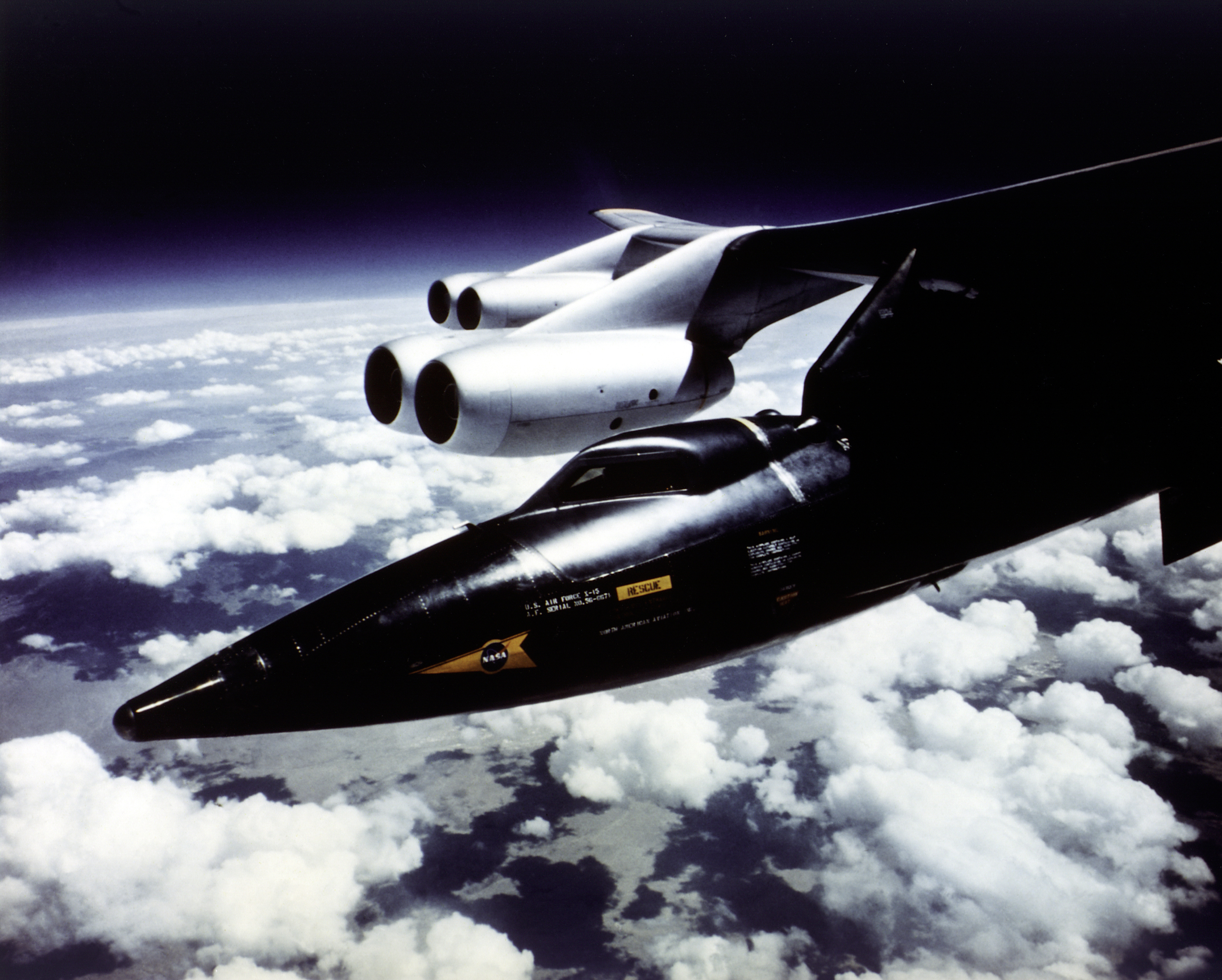 This photo illustrates how the X-15 rocket powered aircraft was taken aloft under the wing of a B-52. Because of the large fuel consumption, the X-15 was air launched from a B-52 aircraft at 45,000 ft and a speed of about 500 mph. This photo was taken from one of the observation windows in the B-52 shortly before dropping the X-15. The X-15 was flown over a period of nearly 10 years -- June 1959 to Oct. 1968 -- and set the world's unofficial speed and altitude records of 4,520 mph (Mach 6.7) and 354,200 ft in a program to investigate all aspects of manned hypersonic flight. Information gained from the highly successful X-15 program contributed to the development of the Mercury, Gemini, and Apollo manned spaceflight programs, and also the Space Shuttle program. The X-15s made a total of 199 flights, and were manufactured by North American Aviation. X-15-1, serial number 56-6670, is now located at the National Air and Space Museum, Washington DC. North American X-15A-2, serial number 56-6671, is at the United States Air Force Museum, Wright-Patterson AFB, Ohio. The X-15-3, serial number 56-6672, crashed on November 15, 1967, resulting in the death of Major Michael J. Adams.